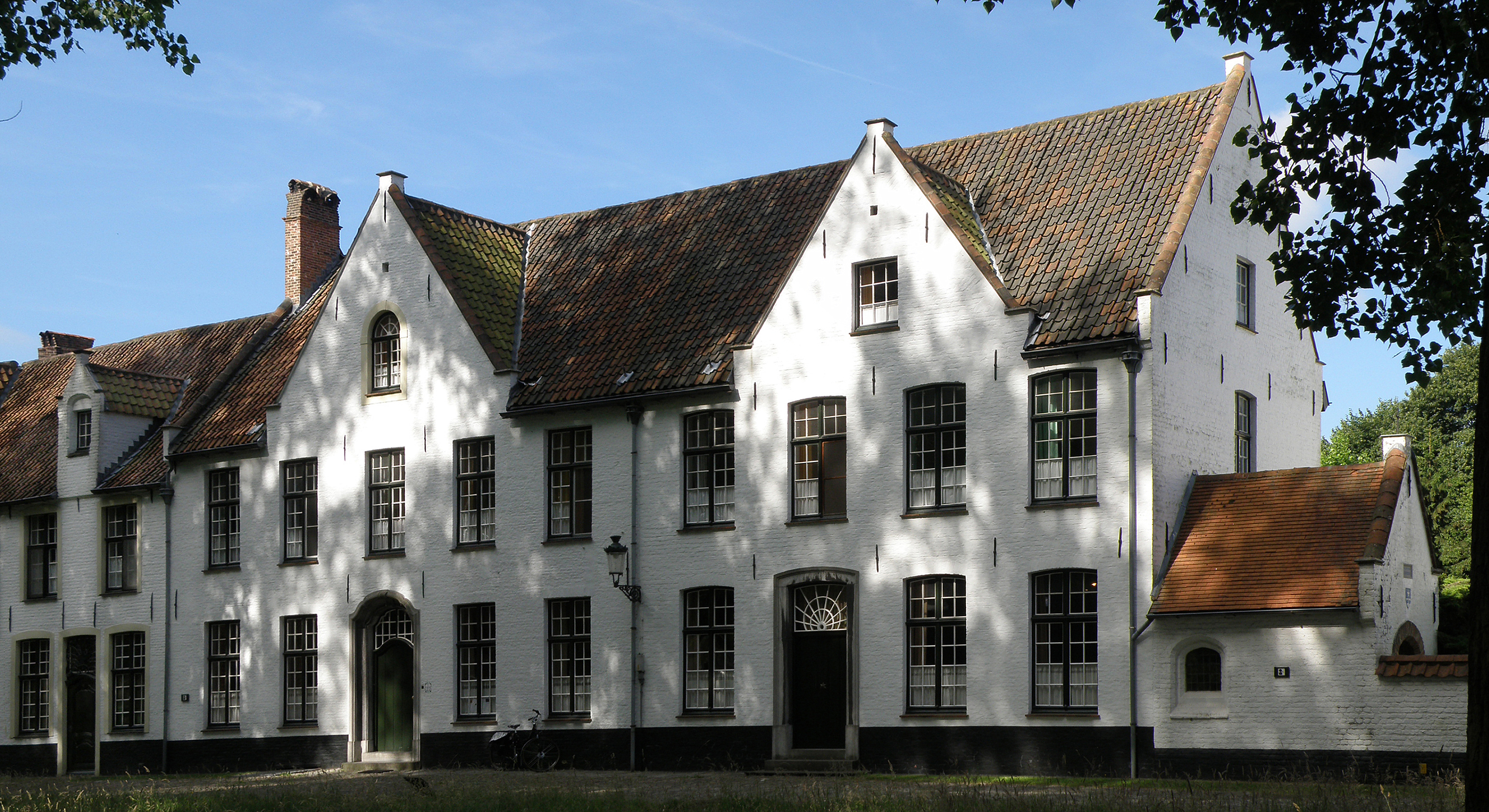 Bruges, béguinage. Beguinal house n° 22.